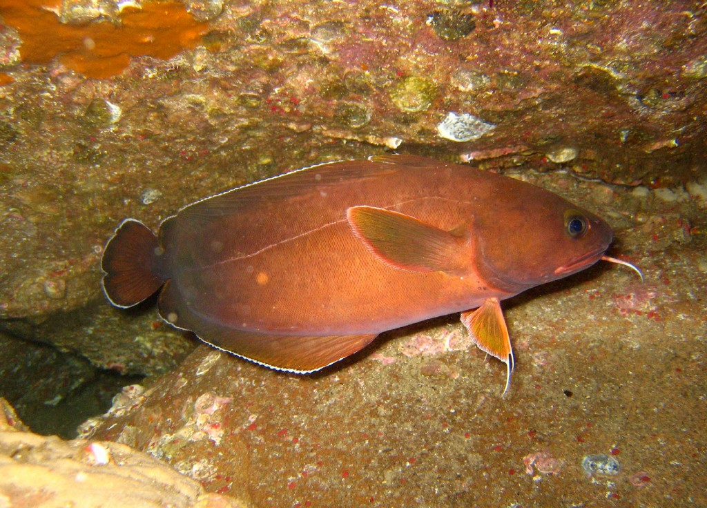 A Beardie (Lotella rhacina). Blue Fish Point, Sydney, NSW